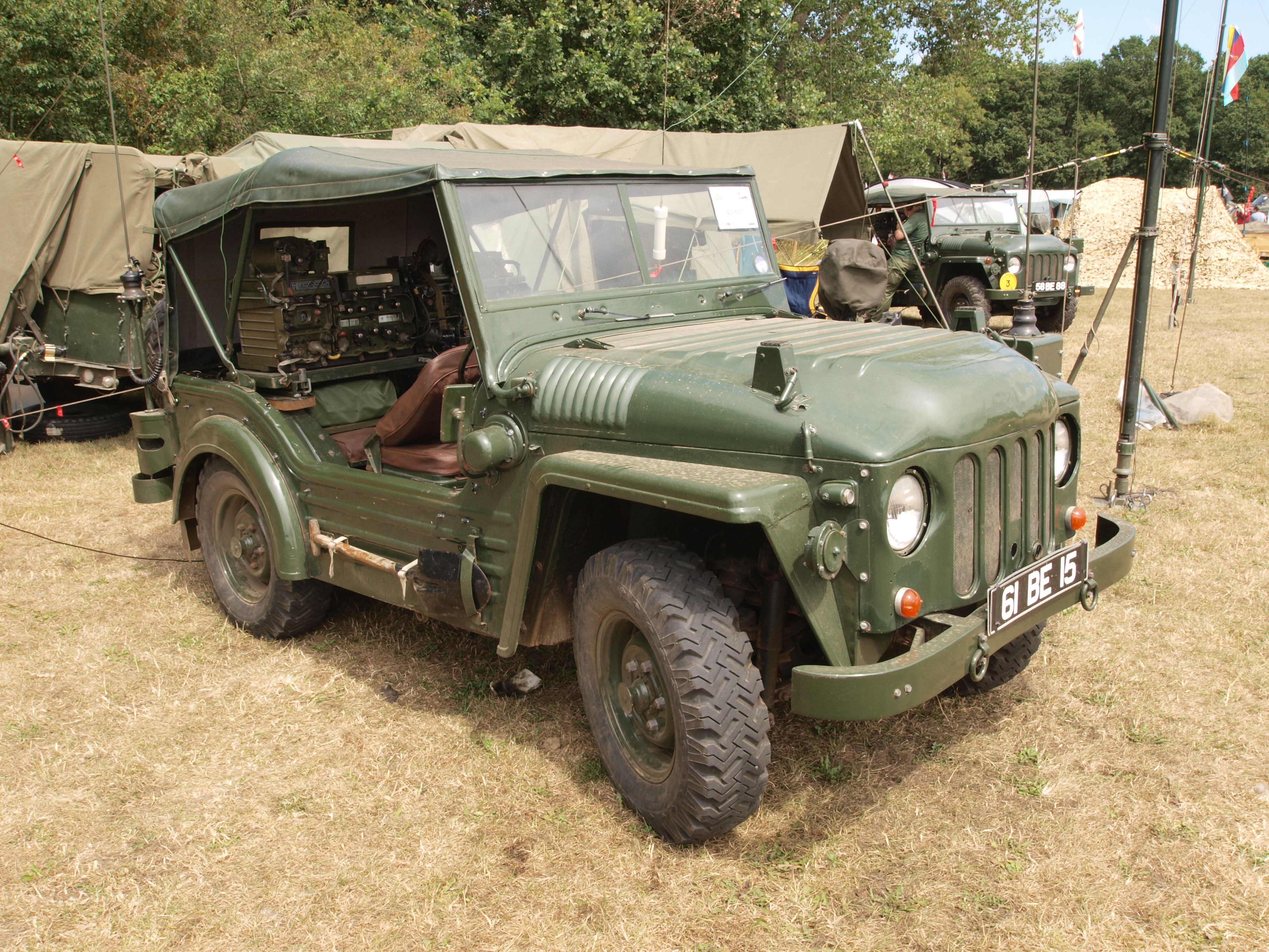 Austin Champ FV1801A (1954) (owner Paul Jackson).